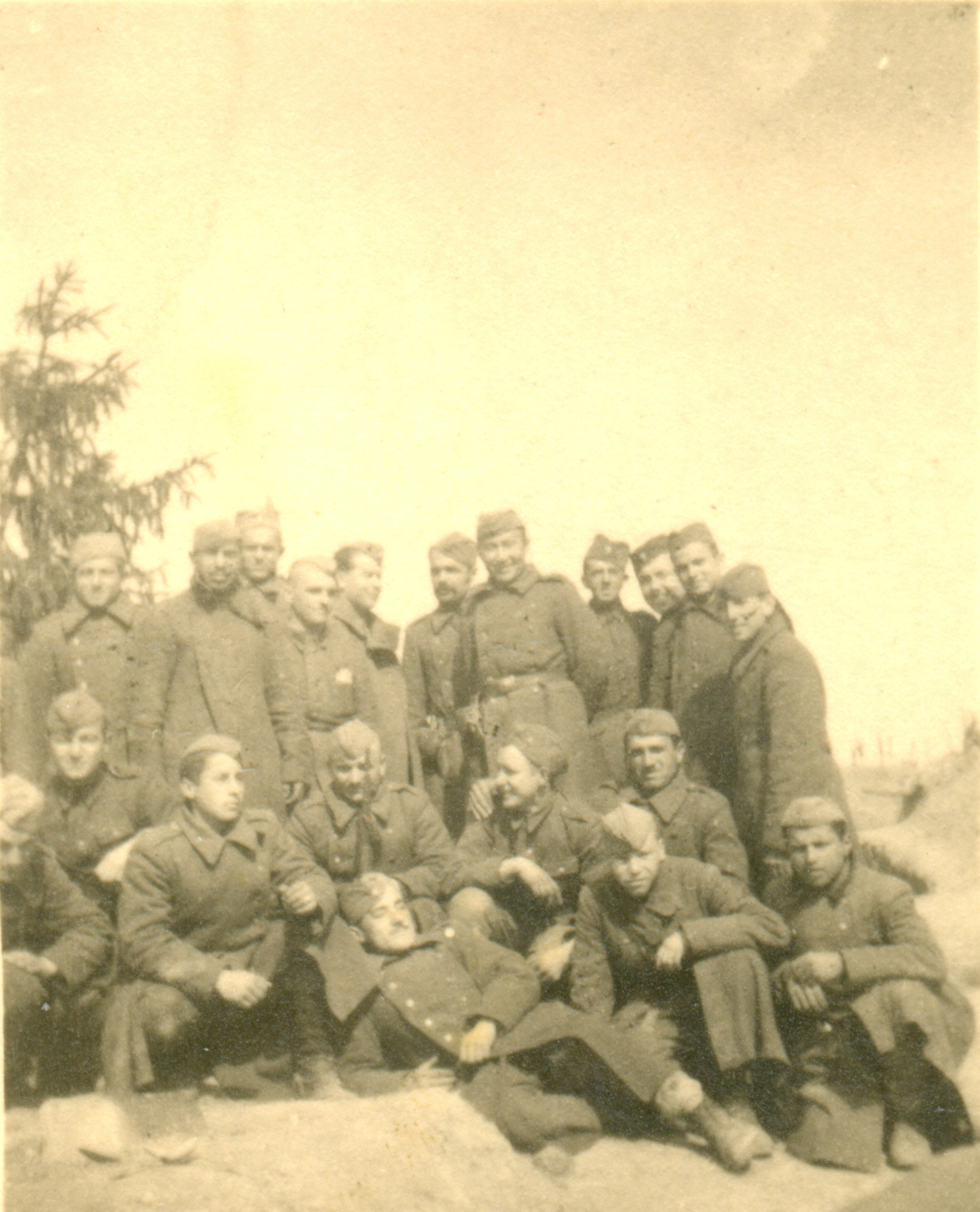 Partisans in Bapska in Srem after a difficult attack was rejected on February 27, 1945. Srpski (latinica): Partizani na položaju Bapska u Sremu posle odbijenog teskog napada 27. februara 1945.